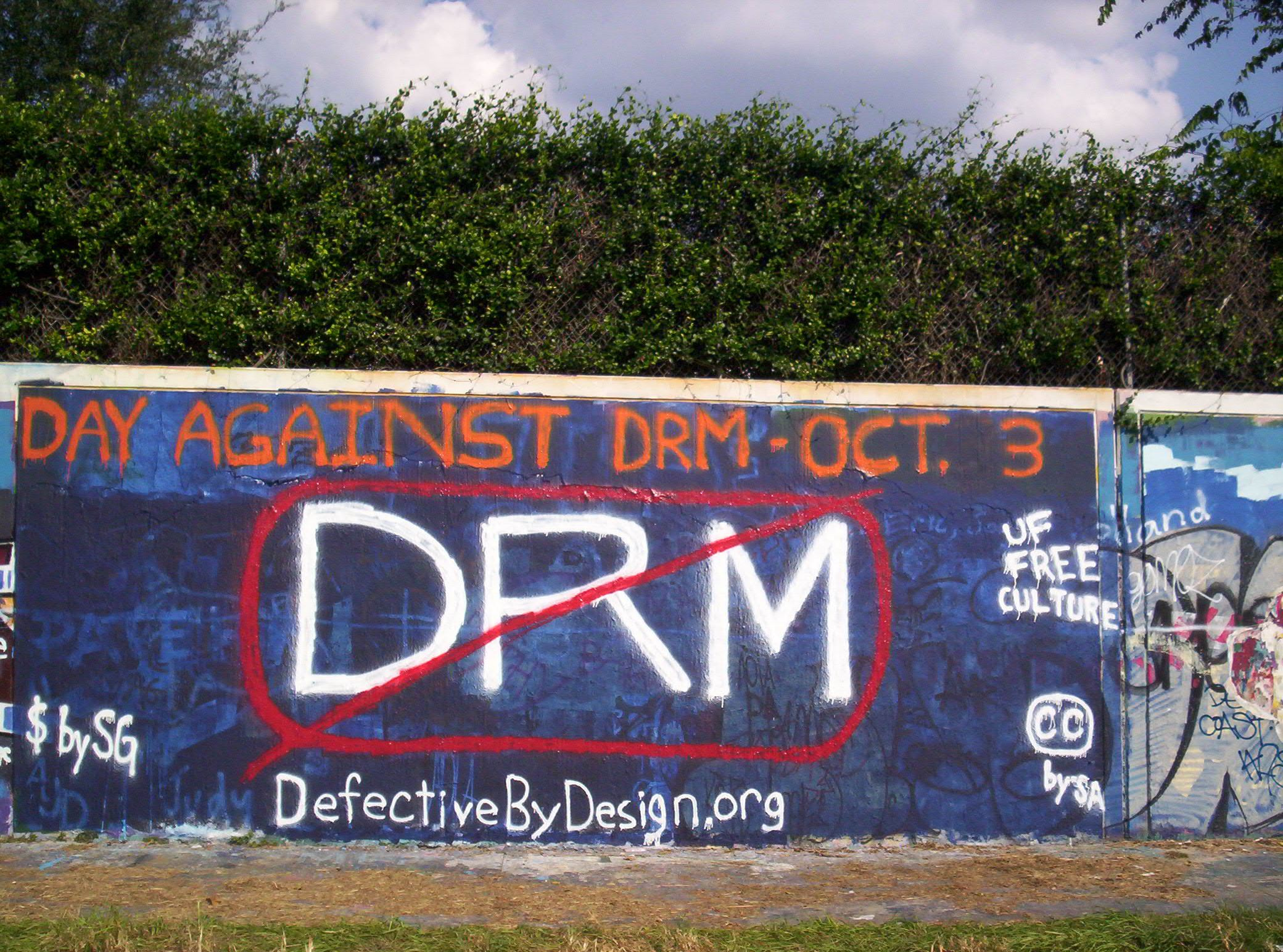 Day Against DRM . October 3. . 34th Street Wall Gainesville, Florida, USA